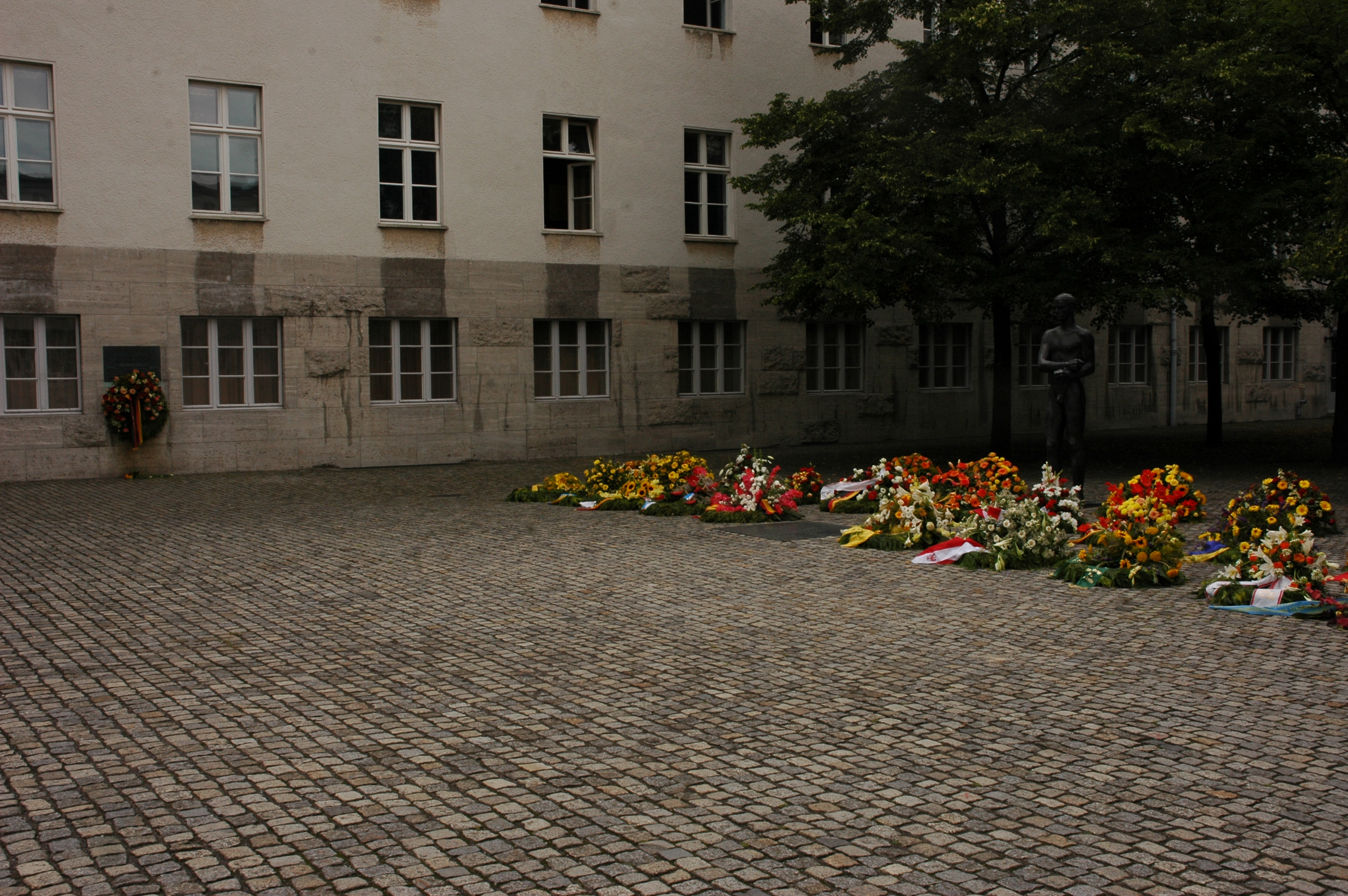 The place in the yard at Beldlerstrasse where executions took place 20 July 1944